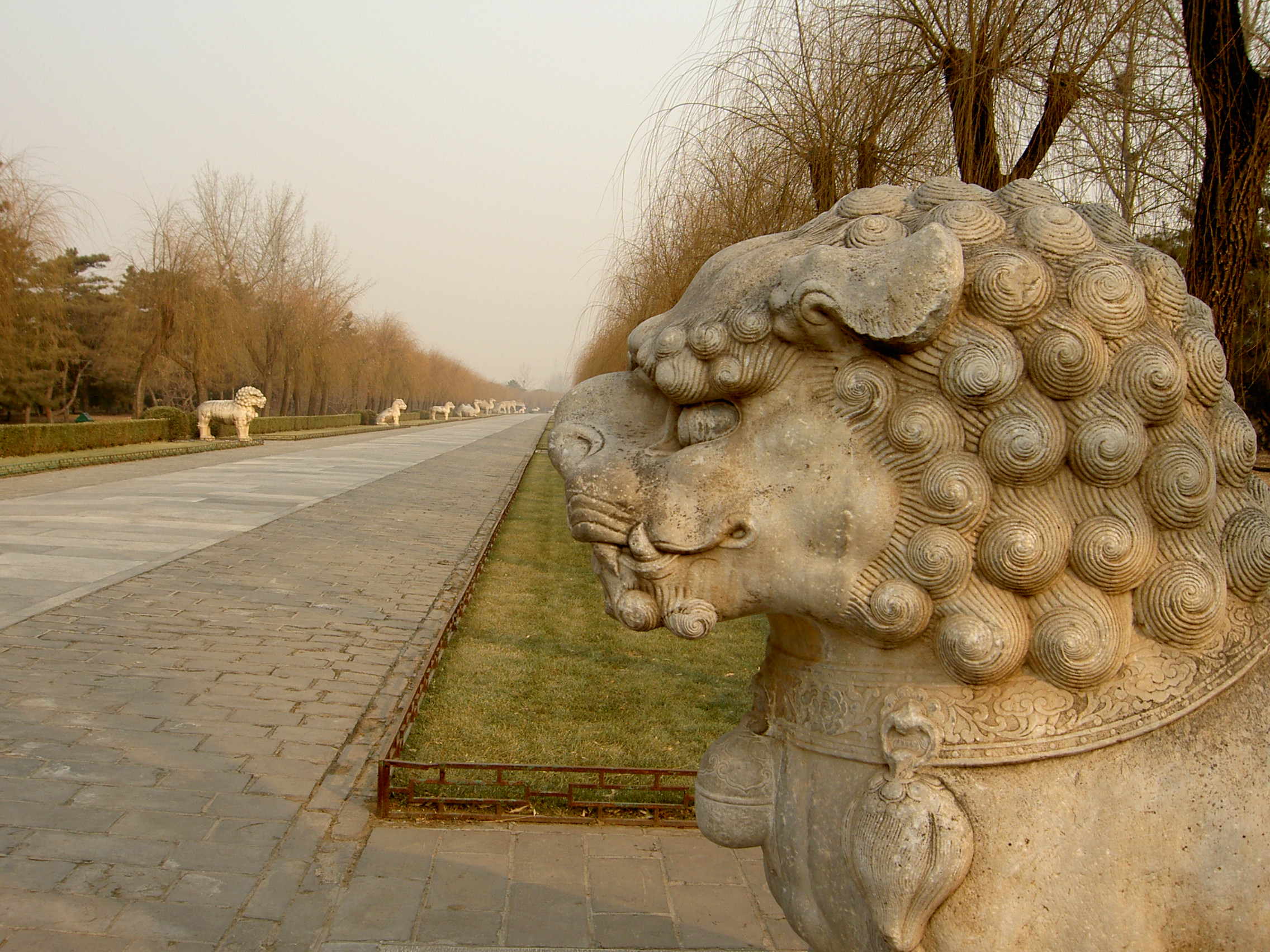 author : ofol date 29-12-2005 FR: voie des âmes, Changping, région de pékin EN: "ways of souls" tombs of the Emperors of the Ming Dynasty (AD 1368 to 1644). 50km north west of Beijing, in Changping. beijing region, ming graves, way of souls DE: "Weg der Seelen". Weg zu den Gräbern der Herrscher der Ming-Dynastie (1368 - 1644 v.Chr.). 50 Kilometer nordwestlich von Peking in Chanping, China.